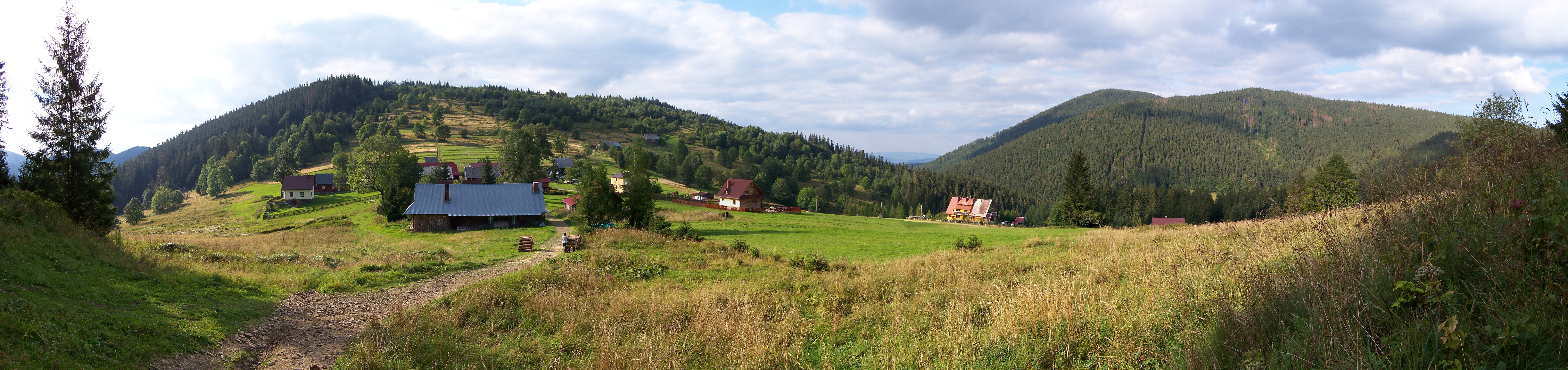 Panorama of Młada Hora. Mountains (from left): Kiczorka, Muńcuł and Kotarz.